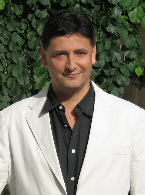 Bariton Michael Zumpe